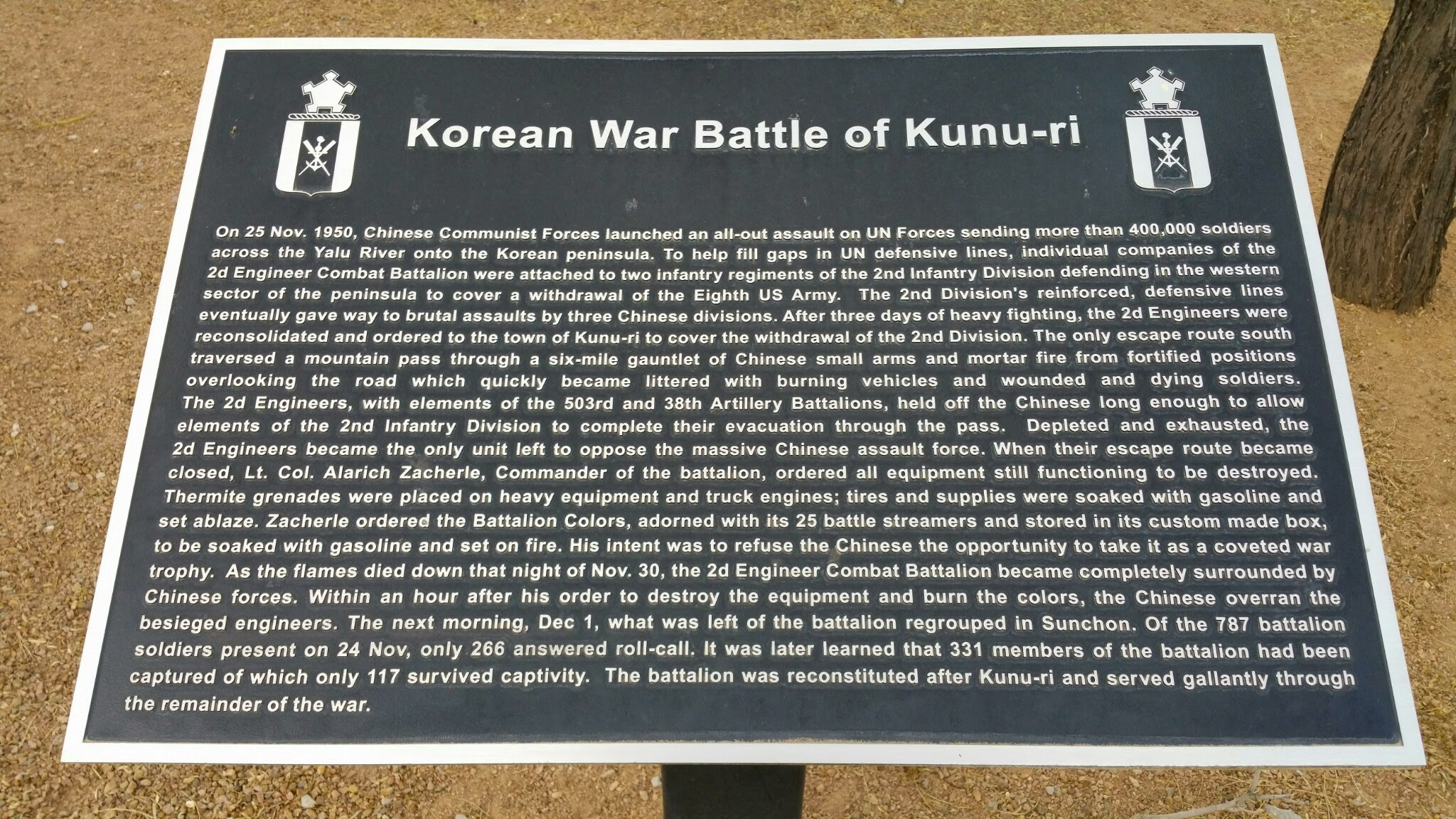 Plaque with information regarding the Korean War Battle of Kunu-Ri